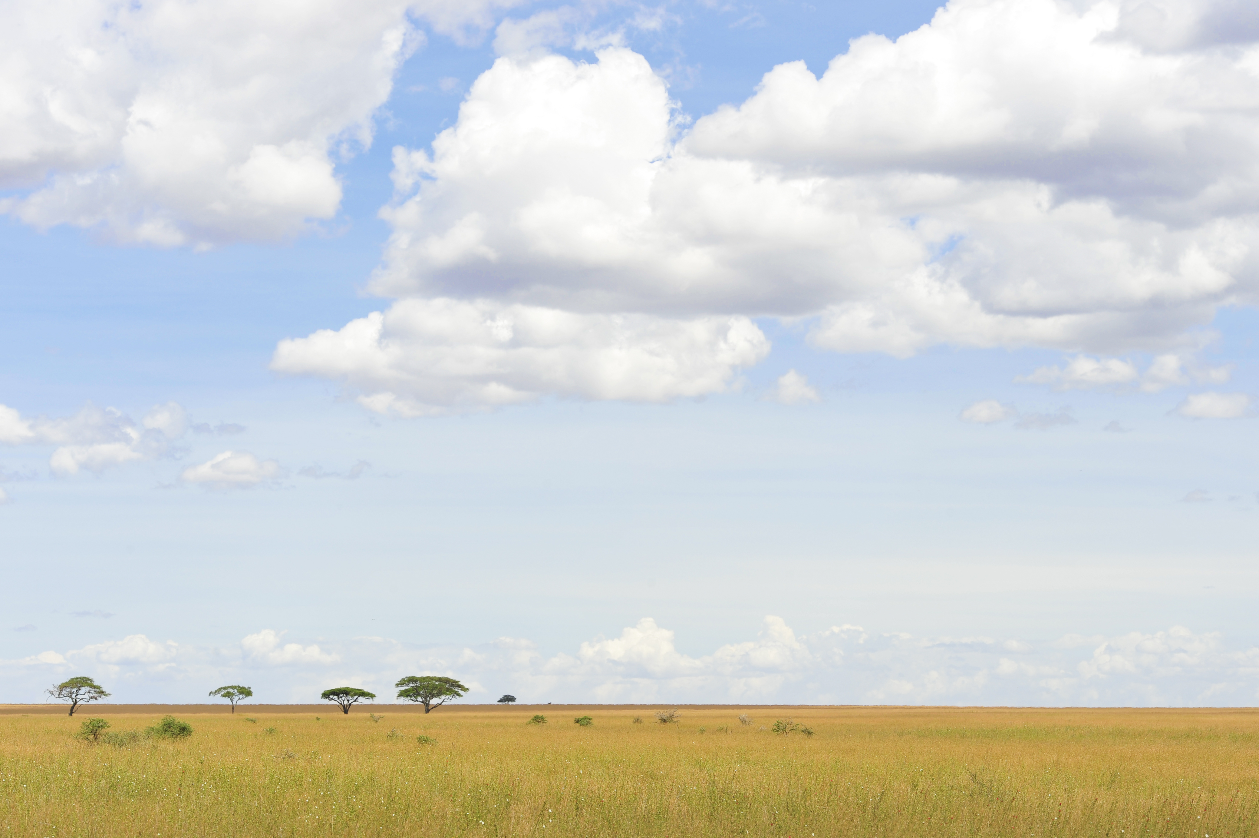 The Serengeti plains